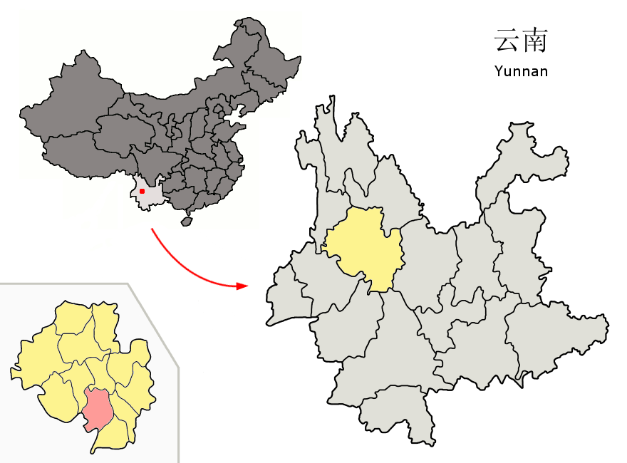 Location of Weishan County (pink) and Dali Prefecture (yellow) within Yunnan province of China Map drawn in september 2007 using various sources, mainly : Yunnan province administrative regions GIS data: 1:1M, County level, 1990 Yunnan Counties map from